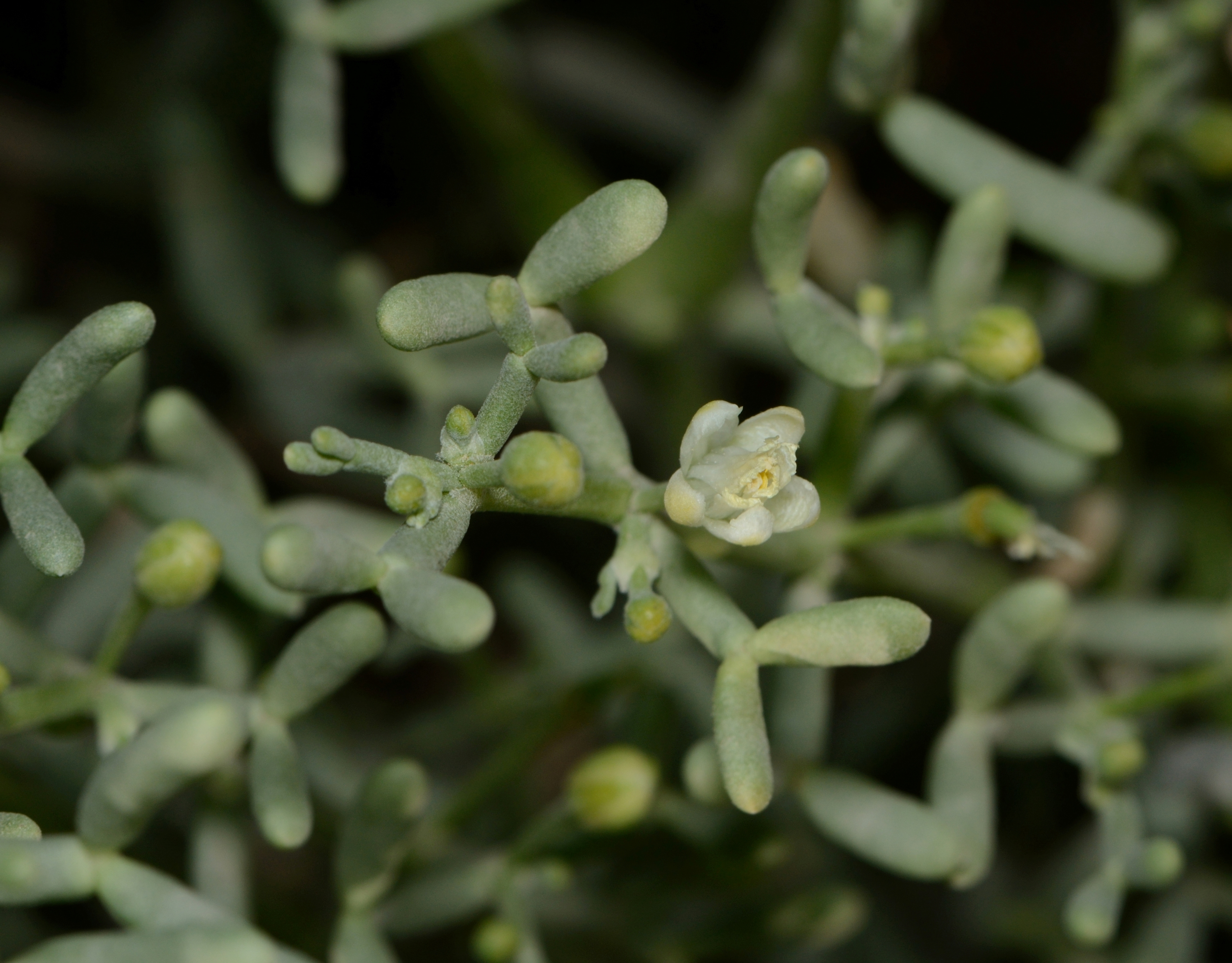 Zygophyllum coccineum L., Nahal Shelomo, Eilat Mountains, Israel, January 18, 2013.